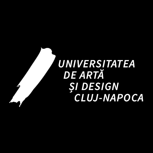 Logo of the Art and Design University of Cluj-Napoca